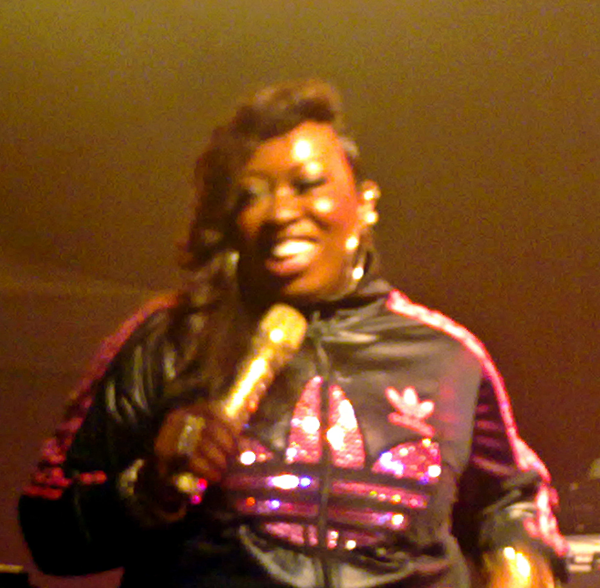 Missy Elliott performing